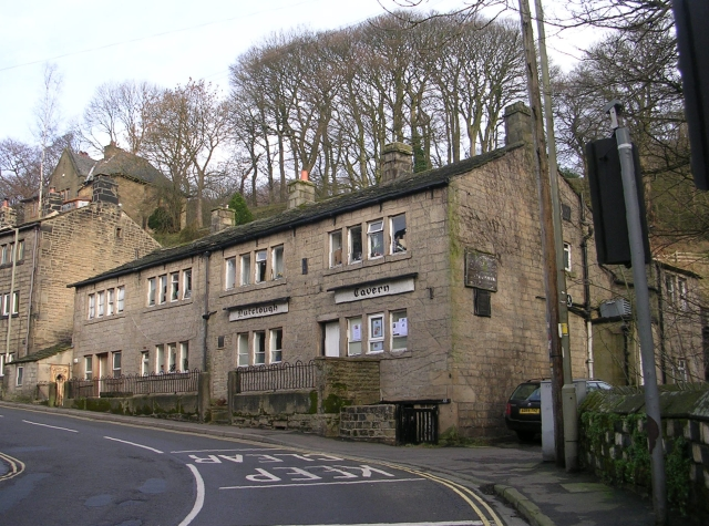 Nutclough Housing Co-op (Zion), Keighley Road Formerly the Nutclough Tavern public house. The pub closed in 2001. The building became home to Zion Housing Co-op in 2002. The name was later changed to reflect the location.